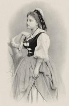 A picture of Caroline Carvalho impersonating Mirèlha (in Gounod's opera).